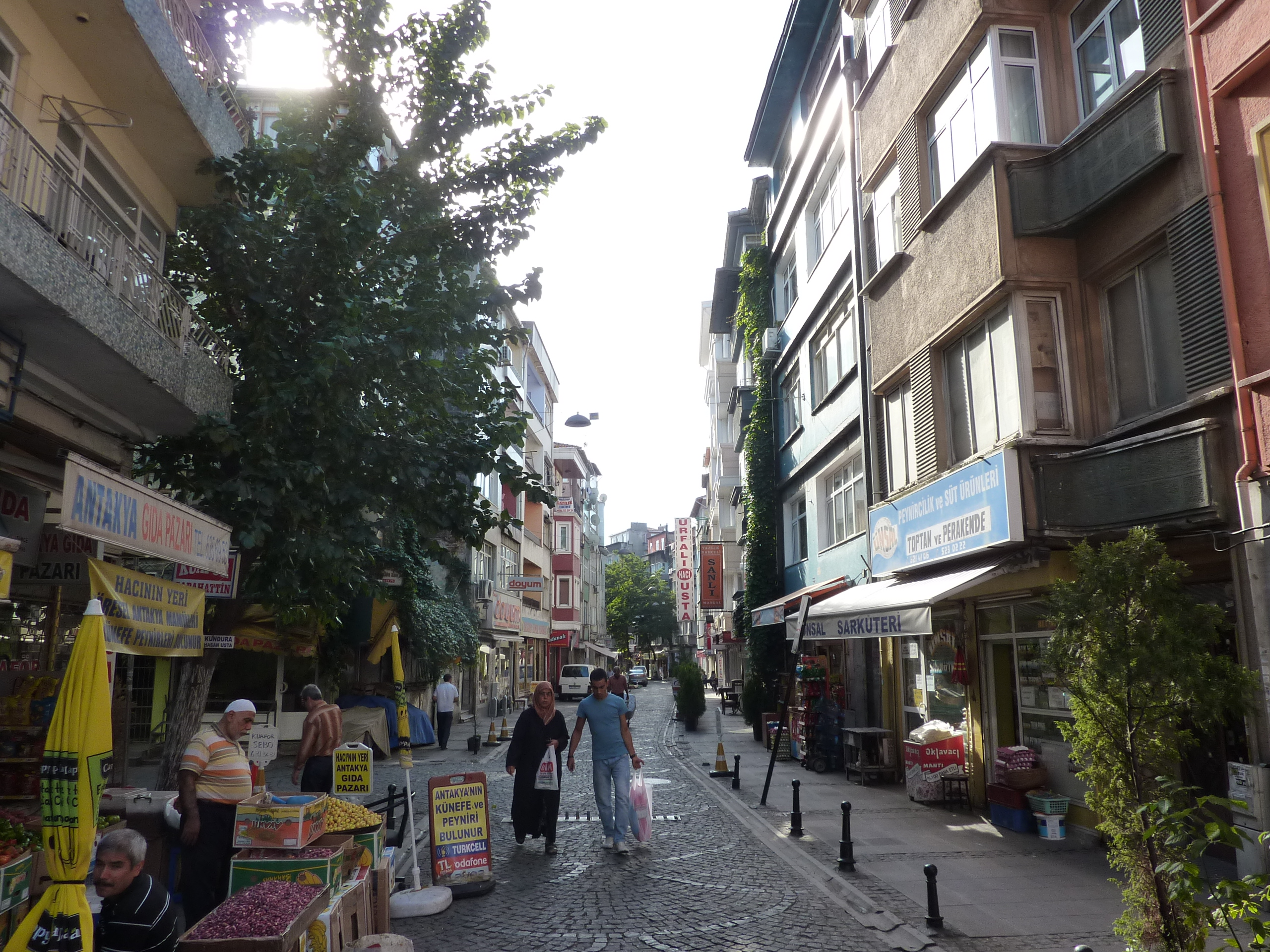 A street in the Aksaray neighborhood, Istanbul.